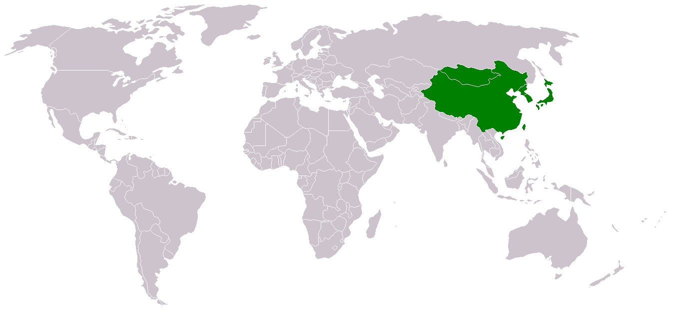 Map made from Image:BlankMap-World.png Add Hainan (Chinese island in the south of China).